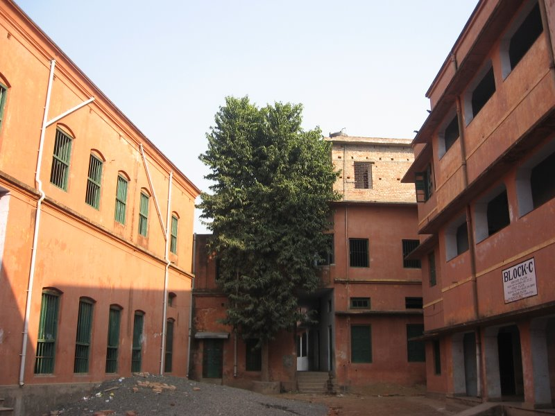 150 year old PC School of Ranaghat